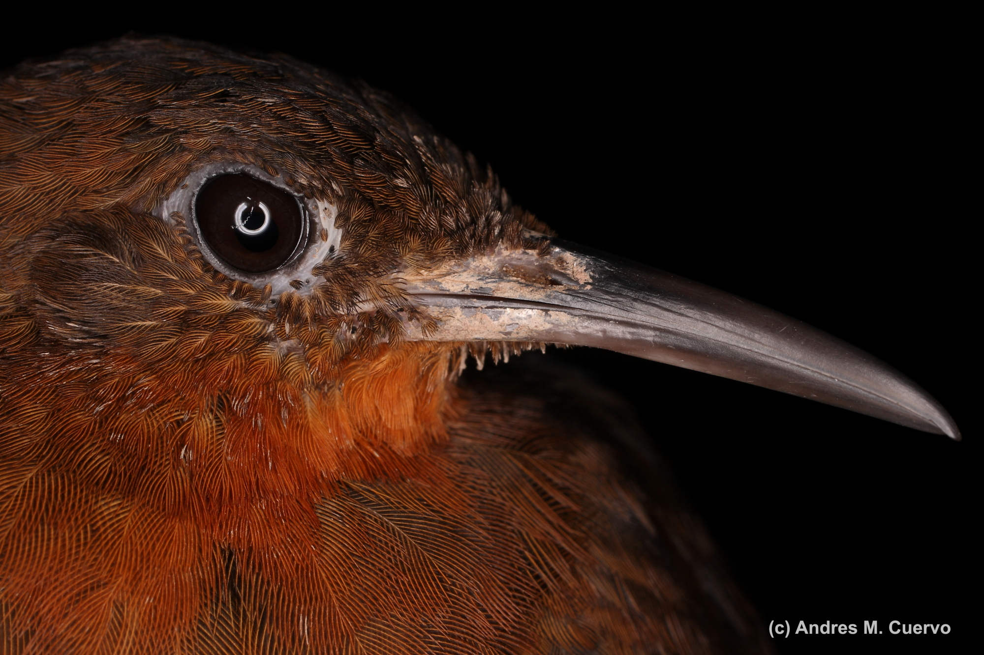 Cryptic diversification in Sclerurus is outstanding. This leaftosser was described as a subspecies of S. mexicanus by the great Frank Chapman in 1914. S. andinus has remained subsumed under the hood of "S. mexicanus" since then. Such treatment may change any time soon for this and other taxa, such as the Chocó endemic and highly divergent obscurior, for the 'true' mexicanus from Central America and others. Same is true for the remaining Sclerurus species, which consist of deeply differentiated and relatively old lineages. A new paper in the Journal of Biogeography provides insights on the evolution of Sclerurus leaftossers, such fascinating group of birds! ...meanwhile, Jacob Cooper is comparing a bunch of vocalizations in this and the whole S. mexicanus sensu lato!